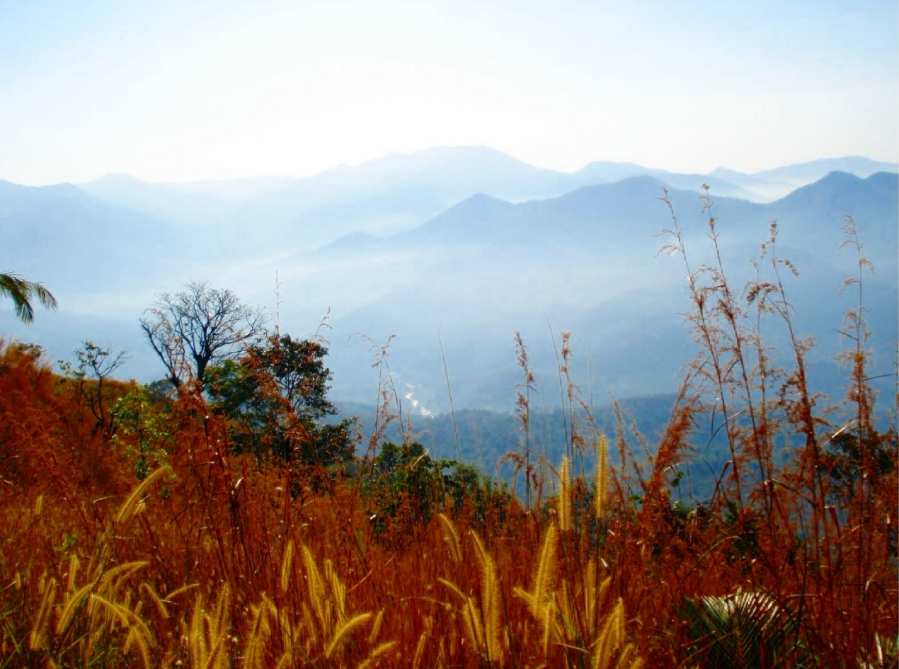 mountains